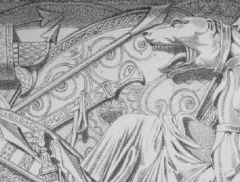 Dacian Draco from 2nd century AD Trajan's Column as represented by Tocilescu in his 'Dacia before Romans' published in 1877 Bucharest Romania